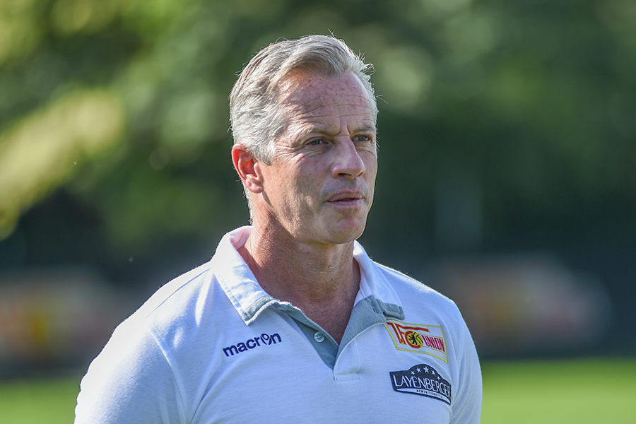 Portrait of football coach Jens Keller at the beginning of the 2016/17 season with 1. FC Union Berlin